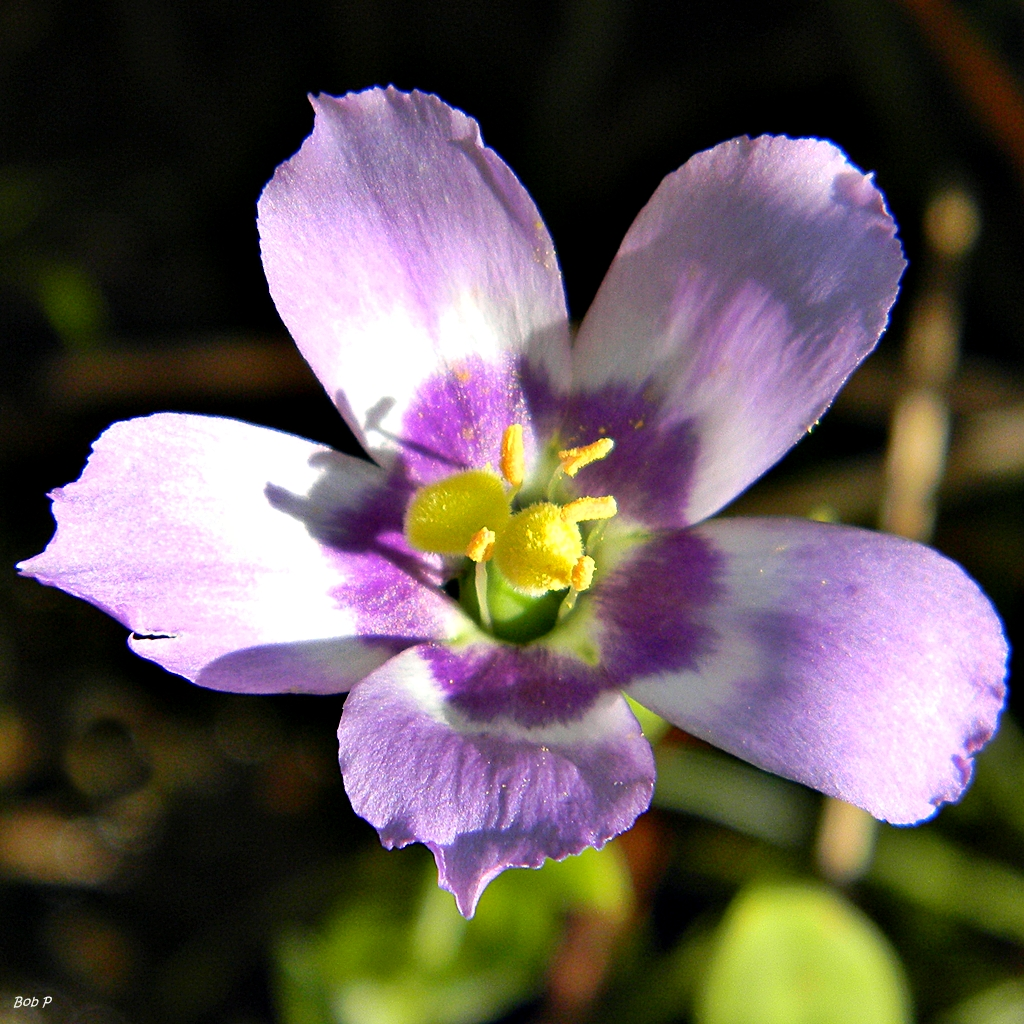 While visiting the swamp hibiscus Saturday, I found this little gem blooming in the grass on the nearby dirt road, near the intracoastal waterway. It's not on the IRC database list of plants found at Jupiter Ridge. It's a "new one" for me but I had apparently photographed an unopened bud last year.